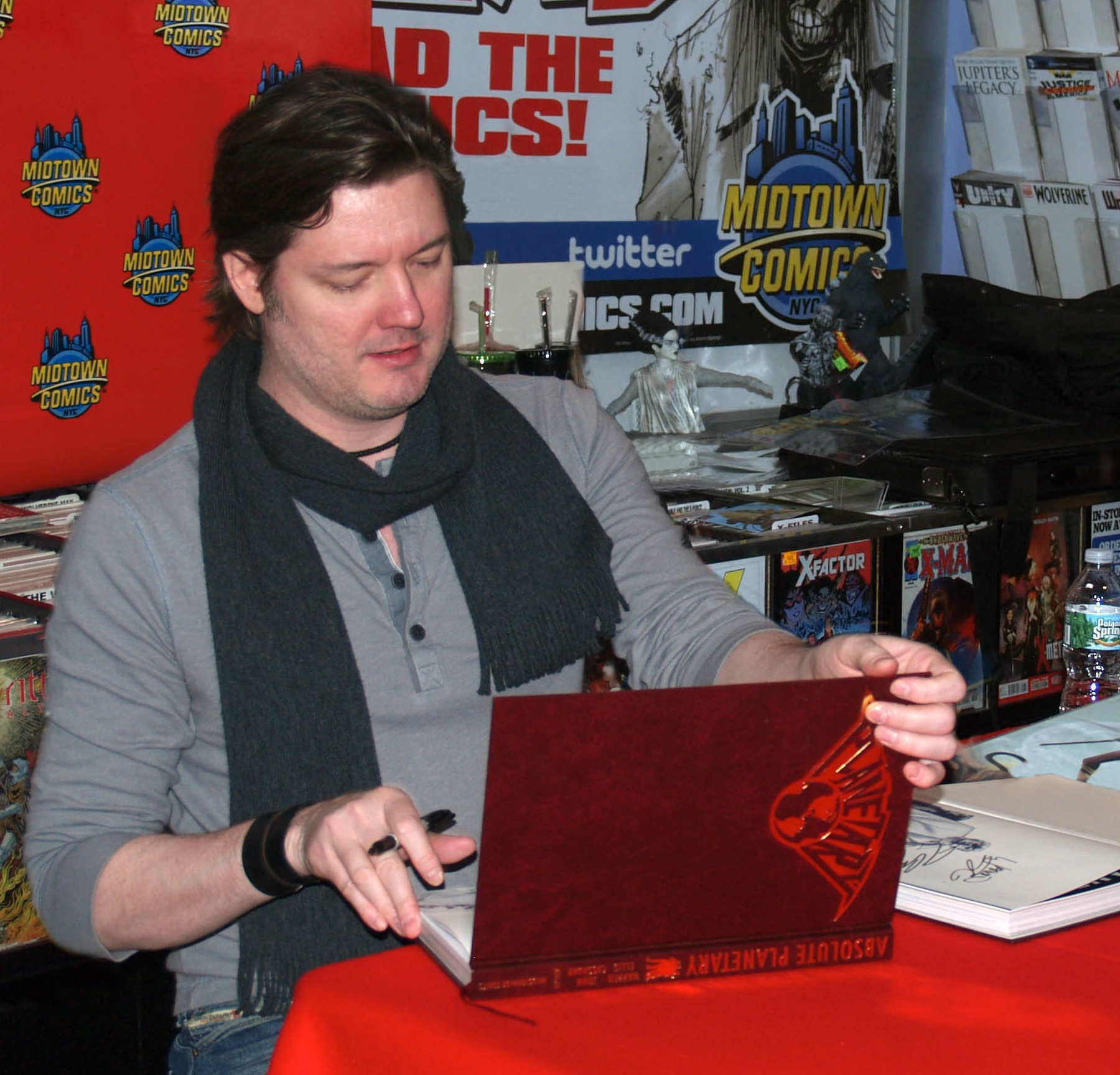 Comics artist John Cassaday at a January 16, 2015 signing for Star Wars #1 at Midtown Comics Downtown in Manhattan. The publication of the book represented the first Star Wars comic to be published by Marvel Comics since 1987, following the acquisition of Marvel by Disney in 2009. In the photo, Cassaday is signing a copies of the hardcover collections of Planetary, a previous work of his. This photo was created by Luigi Novi. It is not in the public domain, and use of this file outside of the licensing terms is a copyright violation.